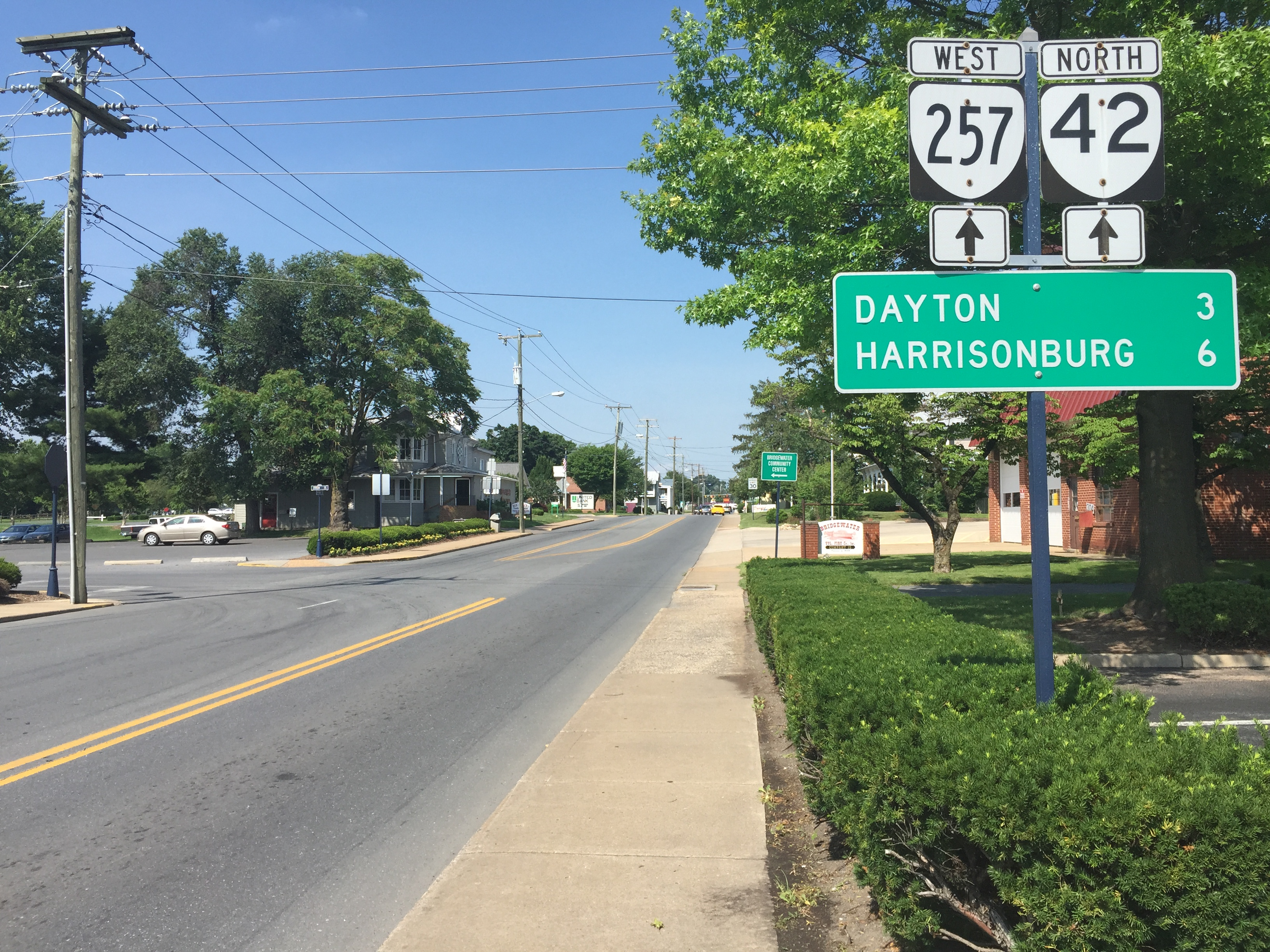 View north along Virginia State Route 42 and west along Virginia State Route 257 (Main Street) at Green Street in Bridgewater, Rockingham County, Virginia